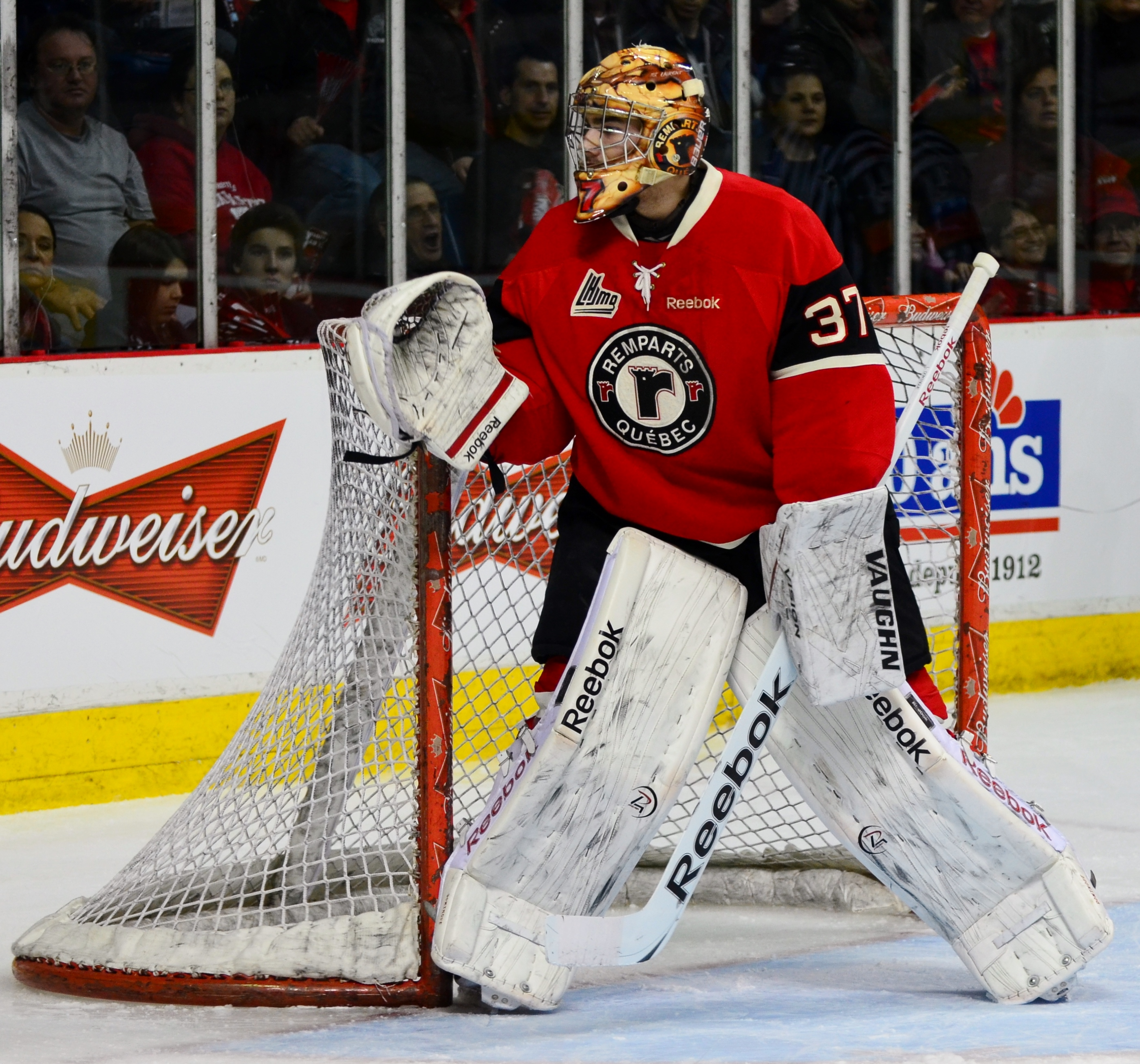 Rempart de Québec's goalie Louis Domingue in the second game in the series between Québec and Drummondville